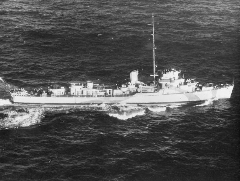 Aerial photograph of Captain class frigate HMS Cosby (K559).